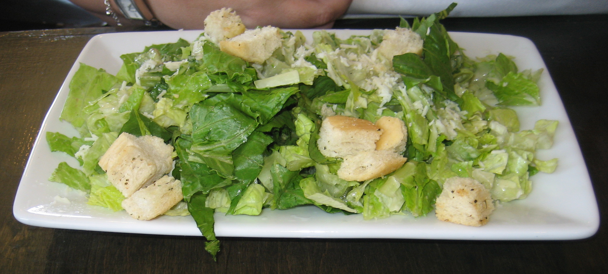 Caesar salad. At "Ruby Slipper" Restaurant, New Orleans.